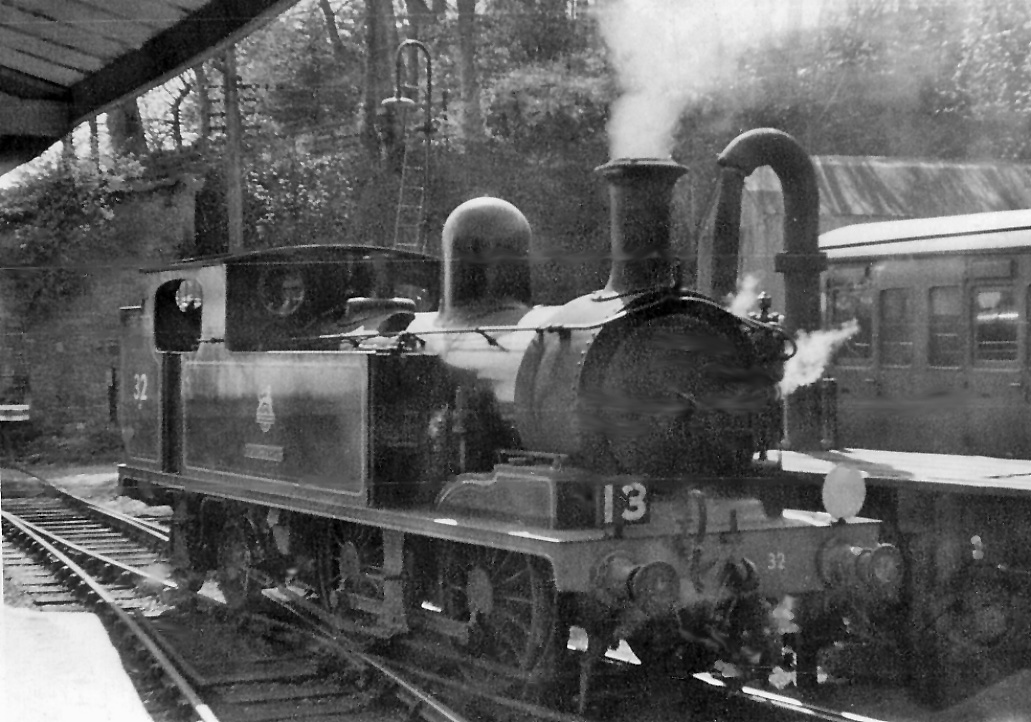 Ex-LSW 0-4-4T at Ventnor station. View towards buffer-stops at the main Ventnor station, which was built in a confined space above the town just outside the tunnel under St Boniface Down. It was the terminus of the ex-Isle of Wight Railway from Ryde, closed from Shanklin 18/4/66. No. W32 'Bonchurch' is an ex-LSW Adams class O2 0-4-4T, built as No. 226 11/1892, renumbered and named on transfer to the Isle of Wight 5/28, withdrawn 10/64; it is running round its train before returning to Ryde Pier Head.